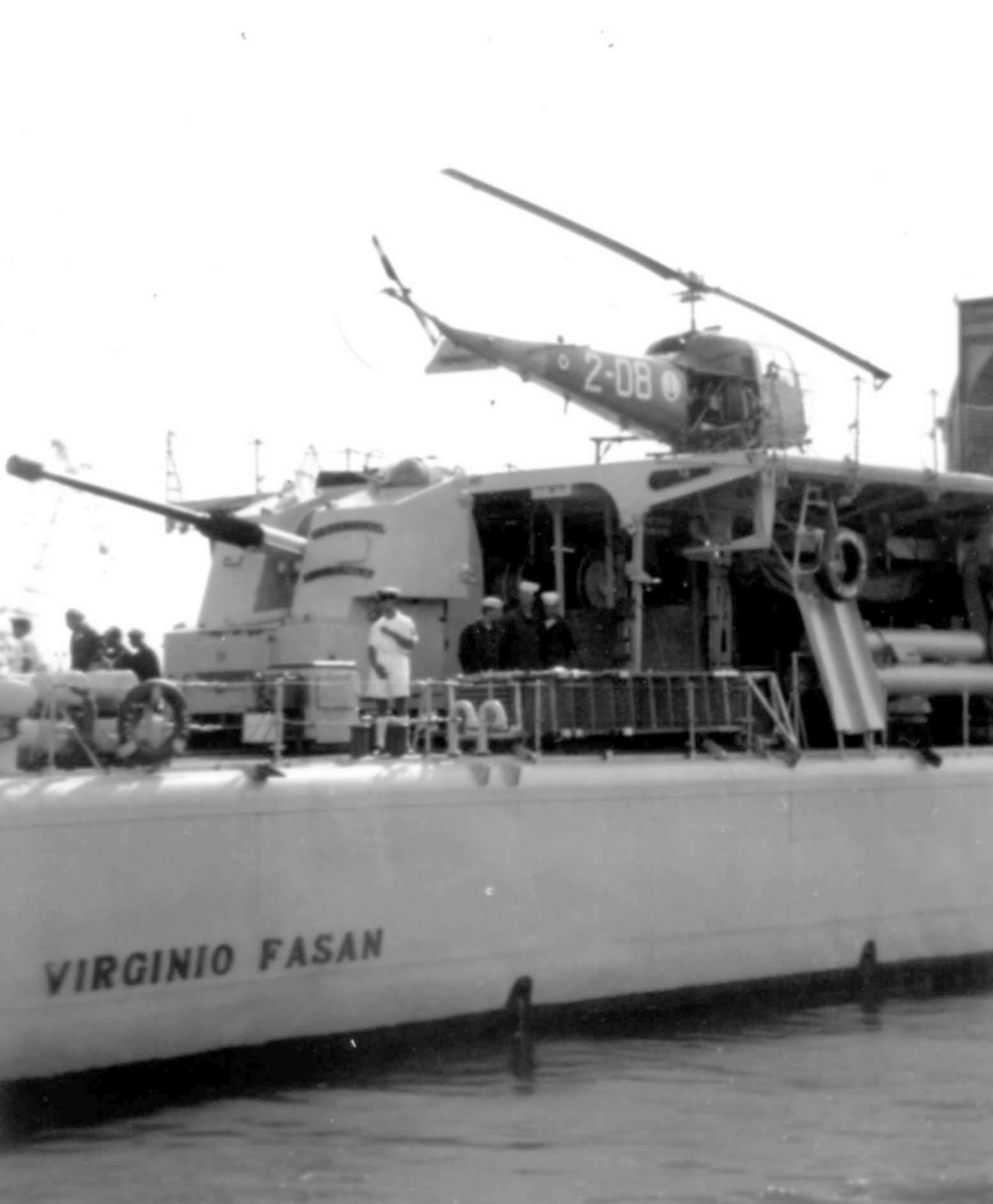 Italy, Marina Militare. The frigate Fasan (F 594), Rizzo class, built by Shipyards Navalmeccanica Castellamare di Stabia, launched on October 09, 1960, completed and entered in service on October 10, 1962. The four units of this class, after being initially classified as corvettes, were the first frigates in the world to have facilities and shelter for anti-submarine helicopters. The artillery was reduced to a 76/62 piece to allow the extension of the flight deck. Here is berthed in the Port of Livorno at “Andana degli Anelli” of “Porto Mediceo” on August 1966.